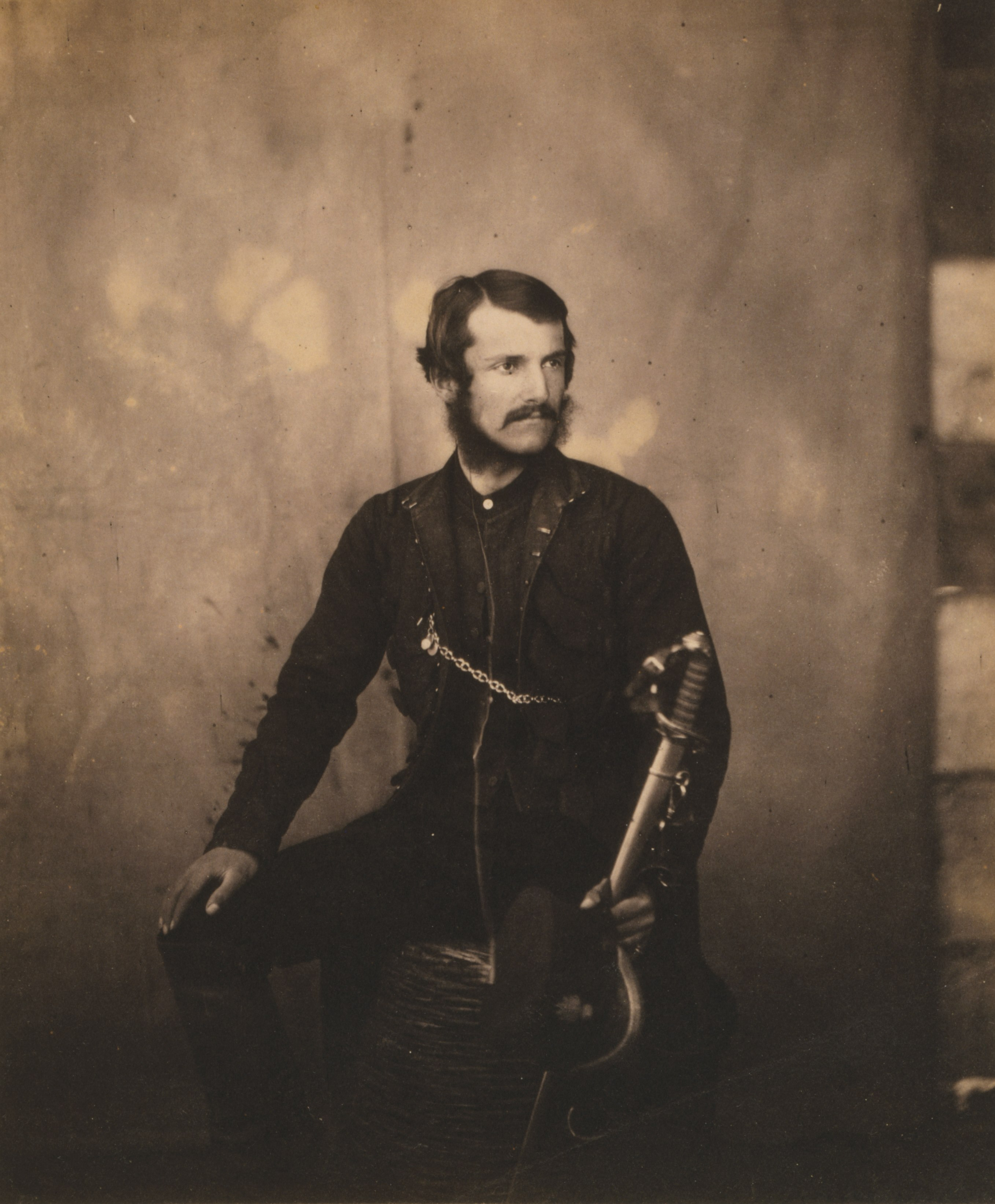 Edwyn Sherard Burnaby (1830 - 1883), English soldier